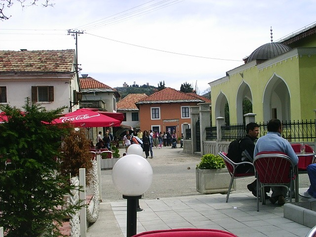 Central part of the town of Trebinje, BiH